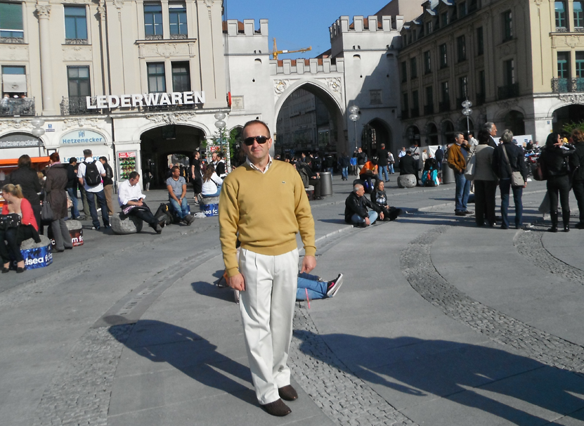 Picture of Dragan Đokanović.